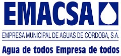 It is the logo of the public company EMACSA